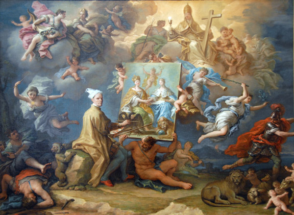 Shortly after the War of Austrian Succession (1701-1714) Paolo de Matteis worked for Naples new Austrian rulers. This painting is just a Bozzetto of a larger work, that has not survived. It shows a self-portrait of de Matteis with an allegory of the Peace of Utrecht. Only a small fragment of this work survived an is now located in the Museo di Capodimonte. [1]